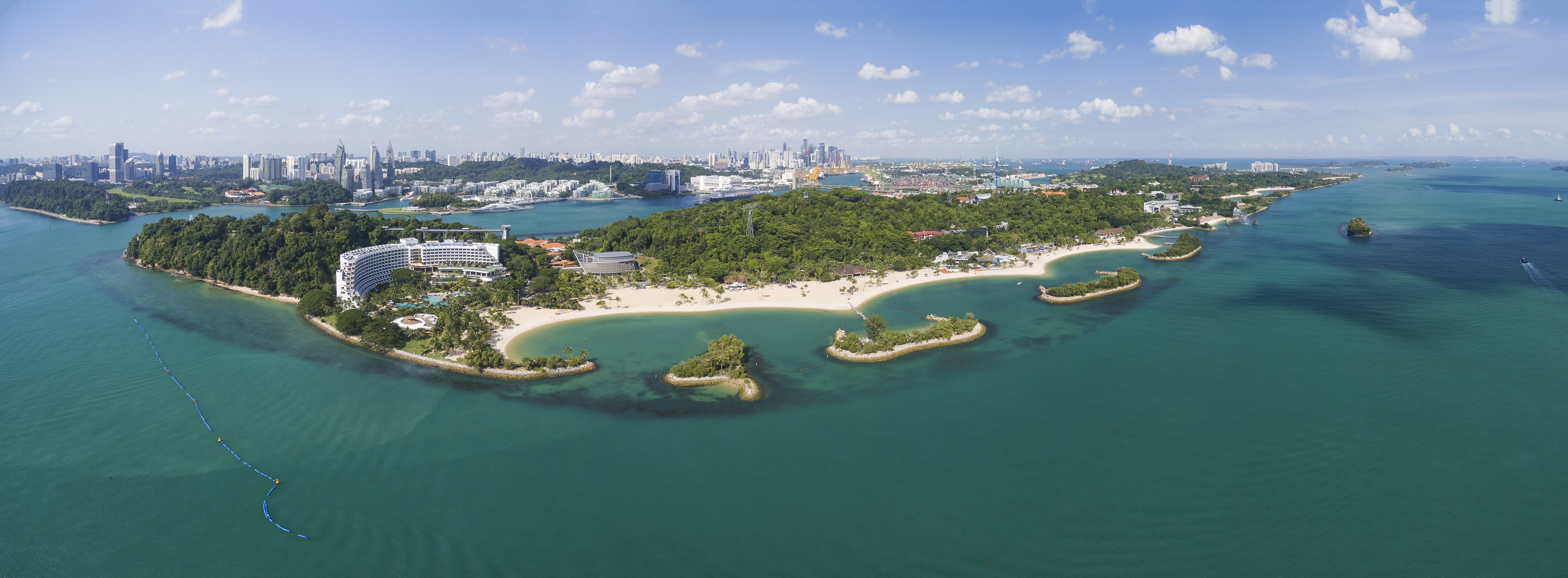 1 sentosa aerial panorama 2016 from south